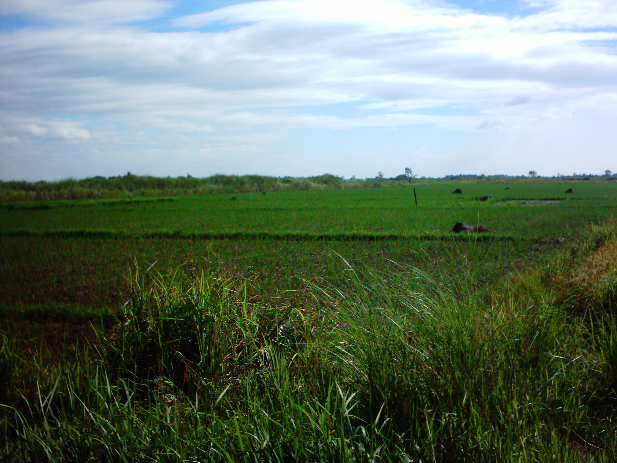 Picture taken as a special project for the Municipal Government of Quezon